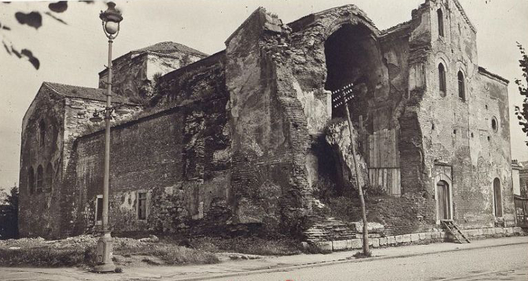 St. Sofia Cathedral, view from north-west, ca.1915.